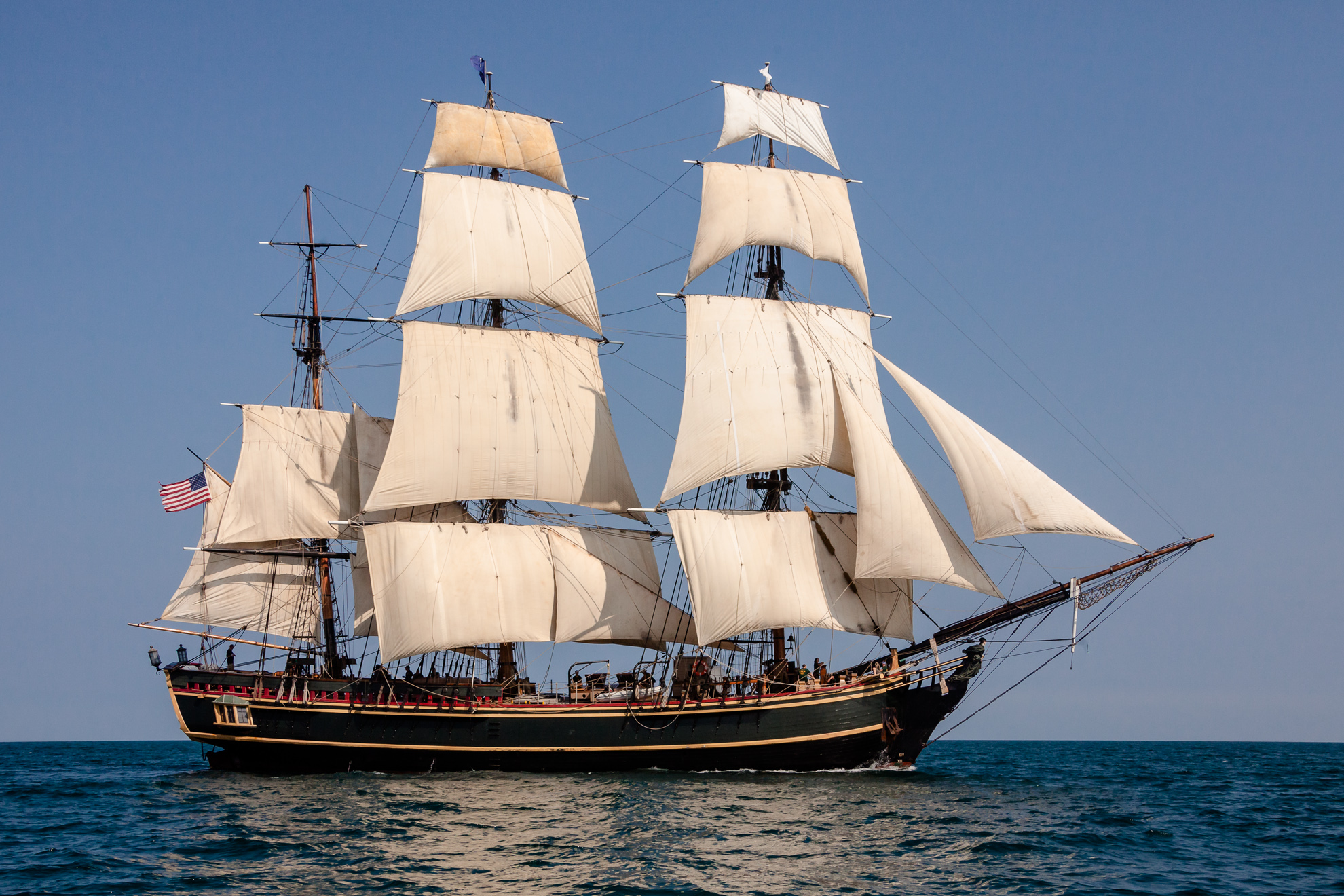 HMS Bounty II 1960 Tall Ship with full sails on Lake Michigan near the Port of Chicago for the 2010 Great Lake Tall Ship Challenge.